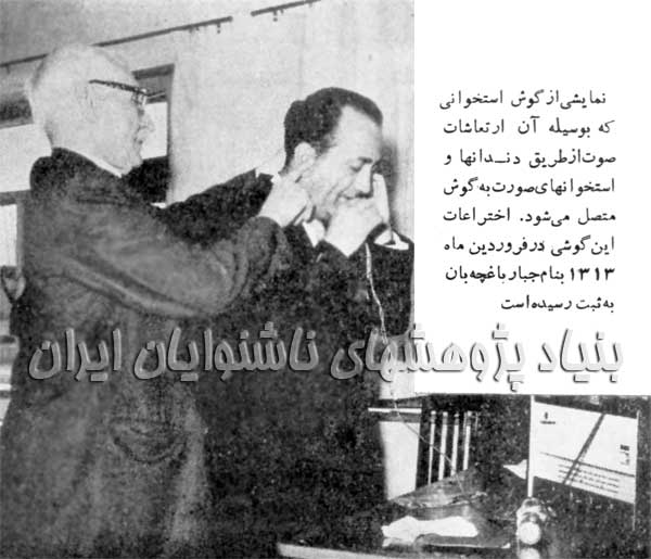 گوشی استخوانی